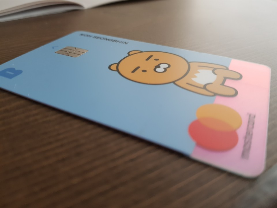 CheckCard